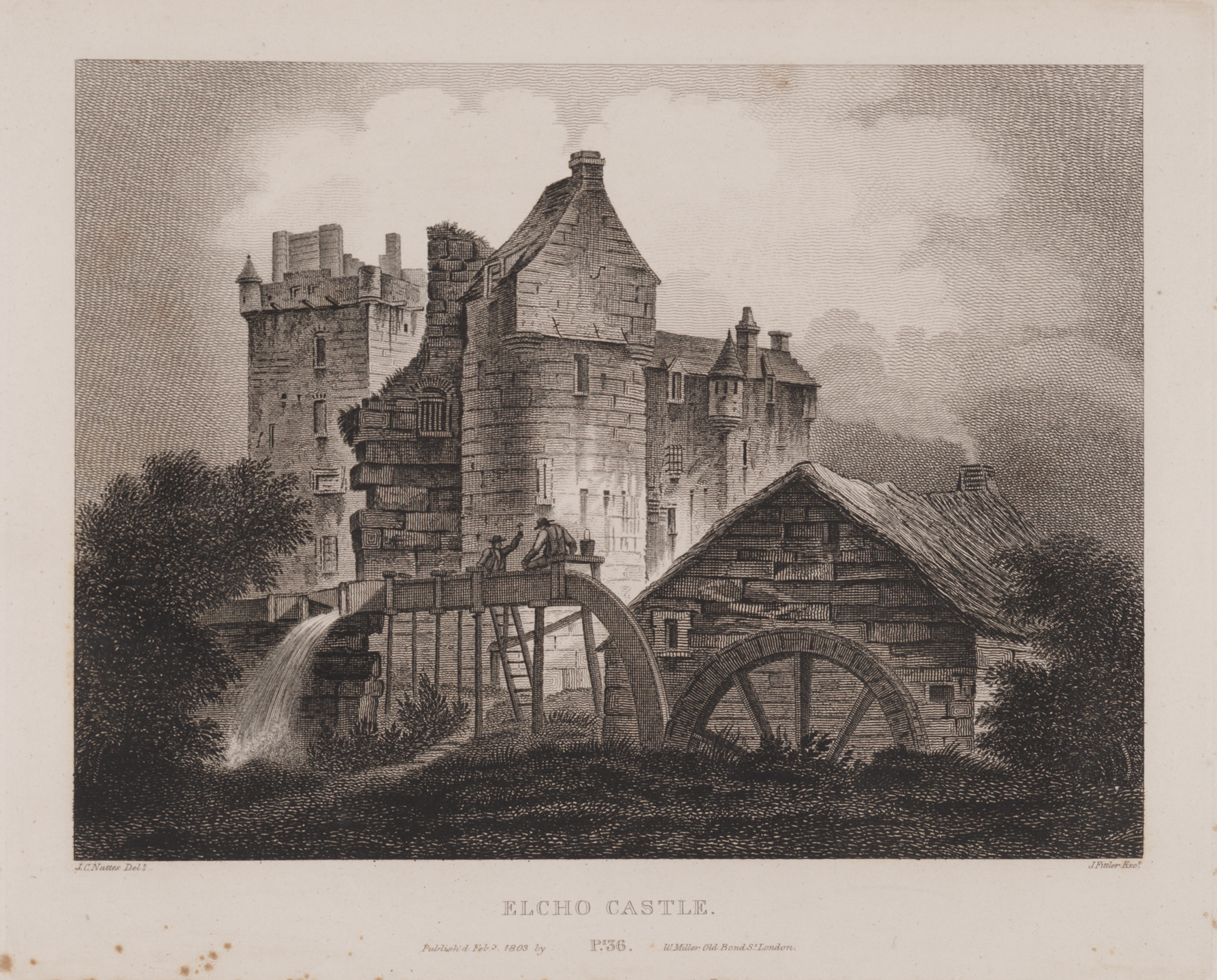 Plate XXXVI/b - John Claude Nattes made drawings of suitable scenes on the spot; etchings are by James Fittler.